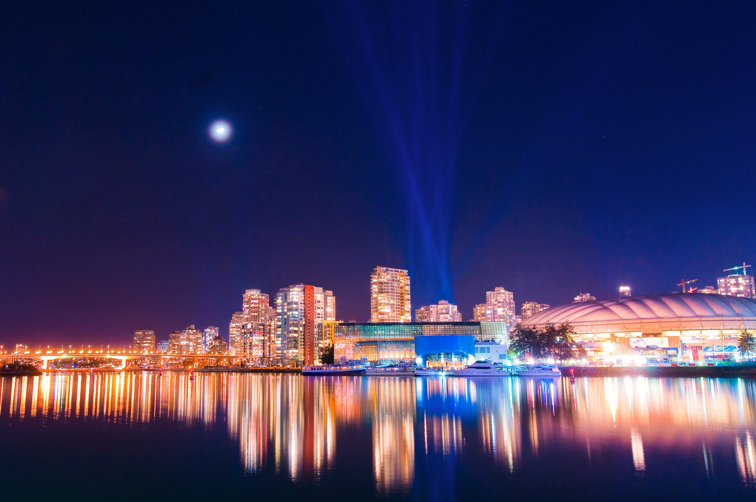 I was hoping for a slightly better end to my False Creek Friday project but various issues out of my control prevented me from getting down to False Creek as often as I would have liked to keep the images coming on time. I was lucky enough to make a False Creek visit during the middle of the Olympics. Even though I've snapped this scene dozens of times before the Olympic mood seemed to give this view a different look this time around. Vectorial Elevation light art